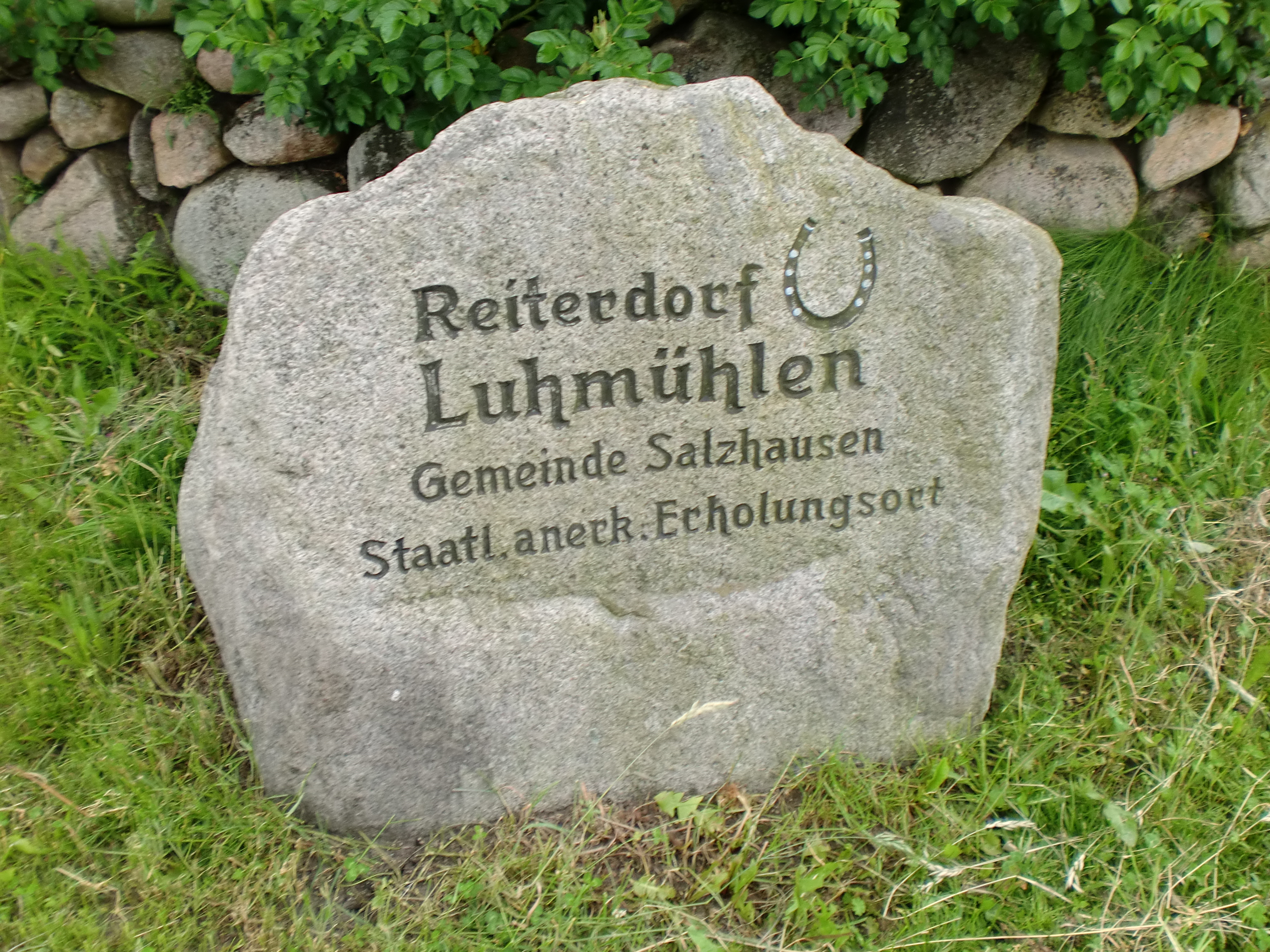 Horse rider village Luhmühlen